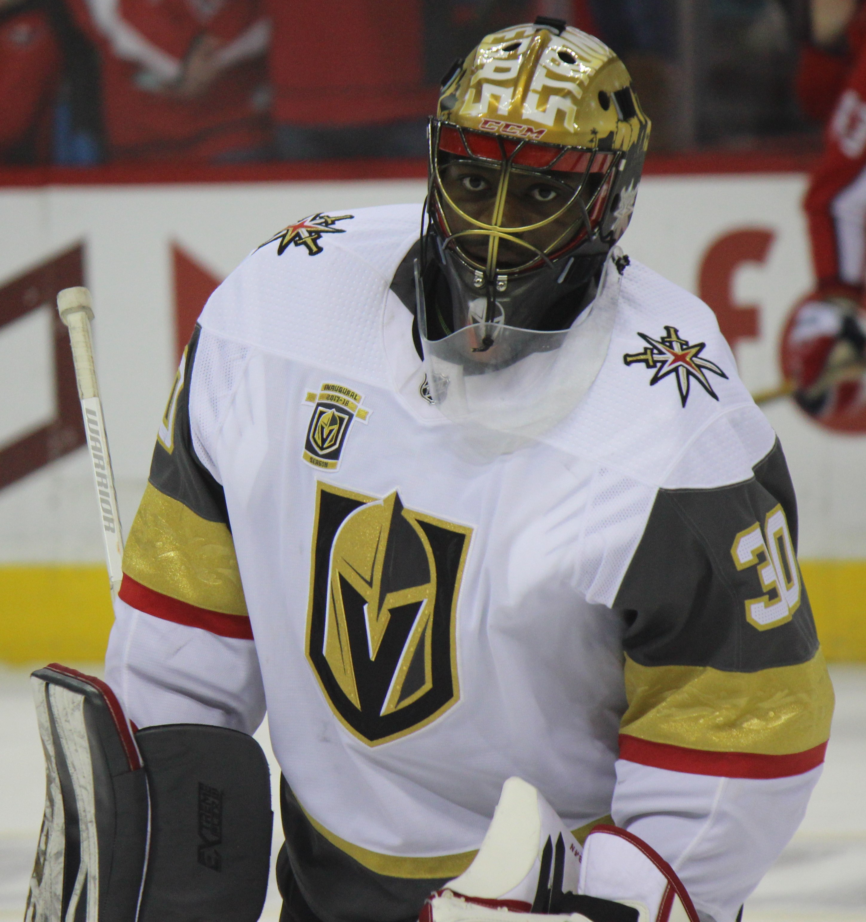 Vegas Golden Knights goaltender Malcolm Subban warmes up prior to a game against the Washington Capitals, February 4, 2018, at Capital One Arena in Washington, D.C.